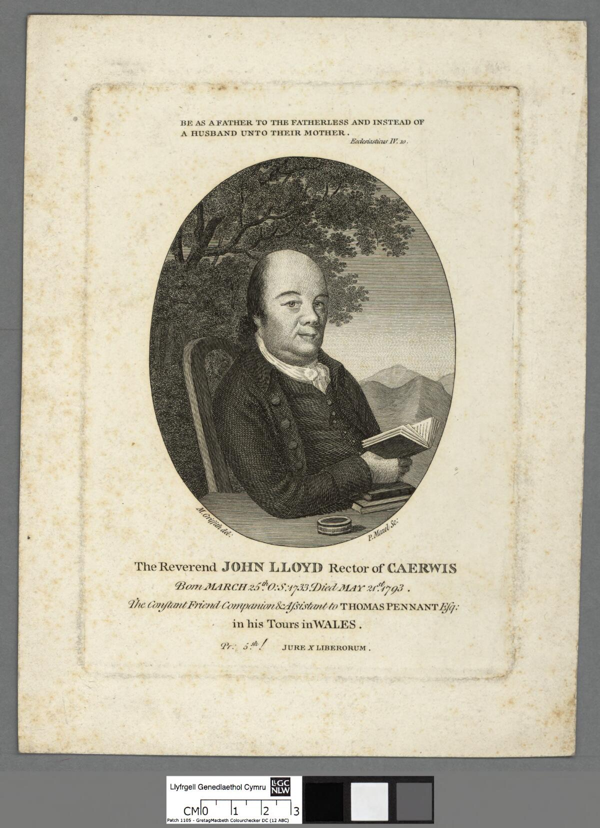 A portrait from the Welsh Portrait Collection at the National Library of Wales. Depicted person: John Lloyd – Welsh cleric and antiquarian